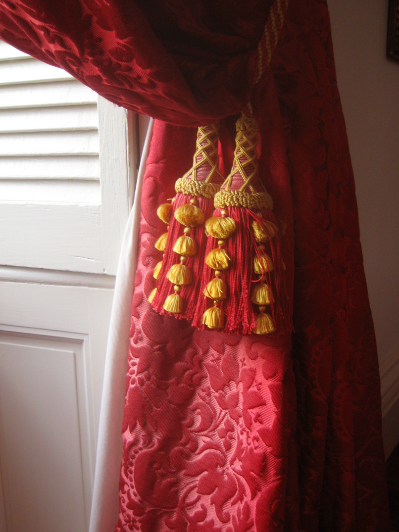 Tassel trim in the Governor of Vermont's Executive Chamber at the Vermont State House. August 2007.